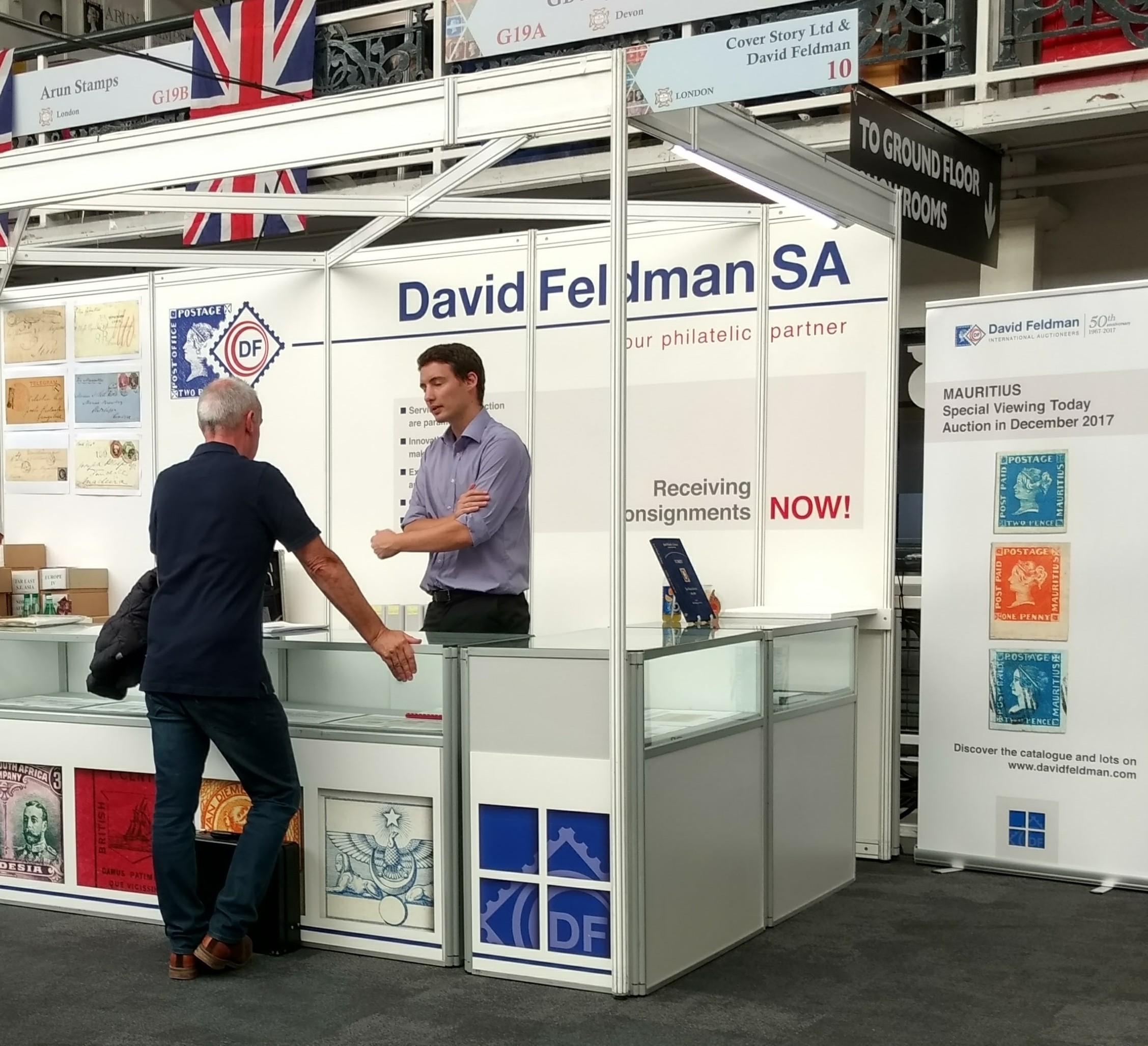 Stampex